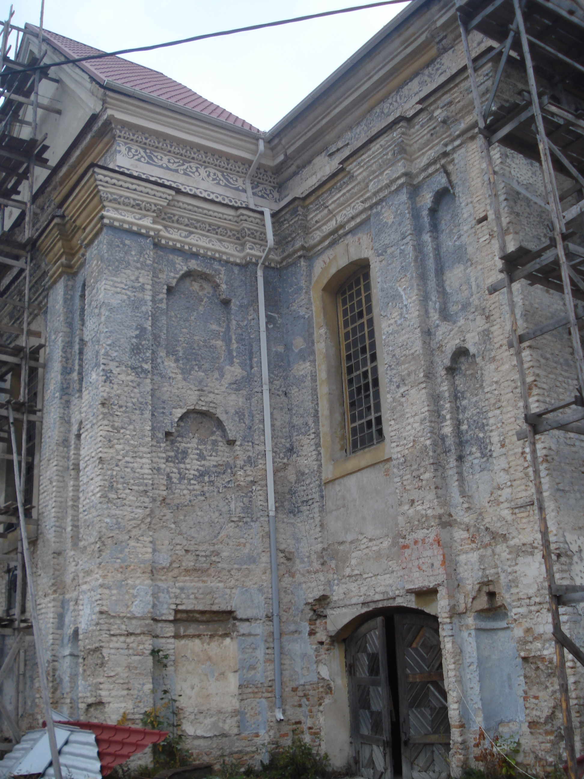 Church of Saint Stephen in Vilnius